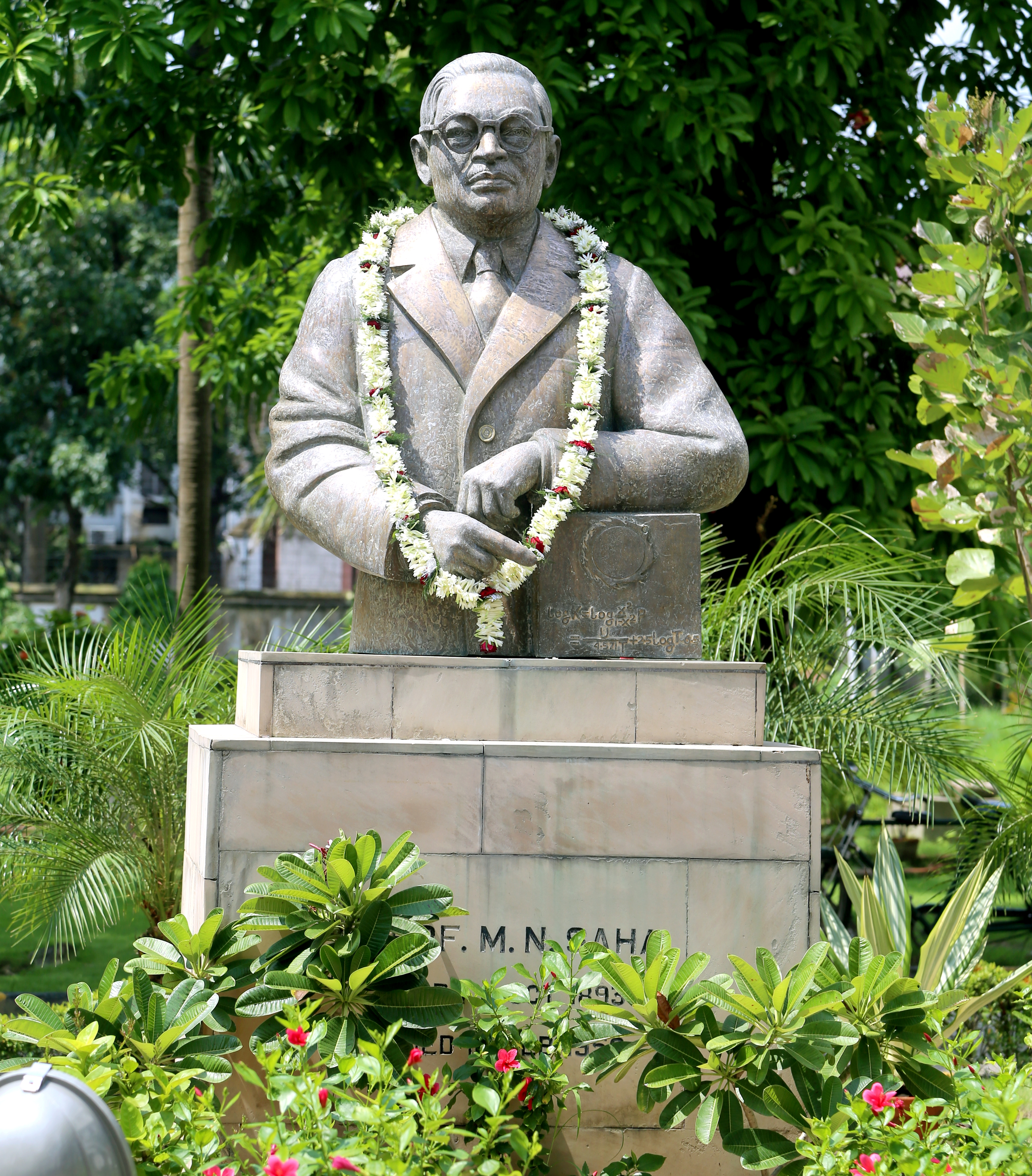 Bust of M N Saha at IACS